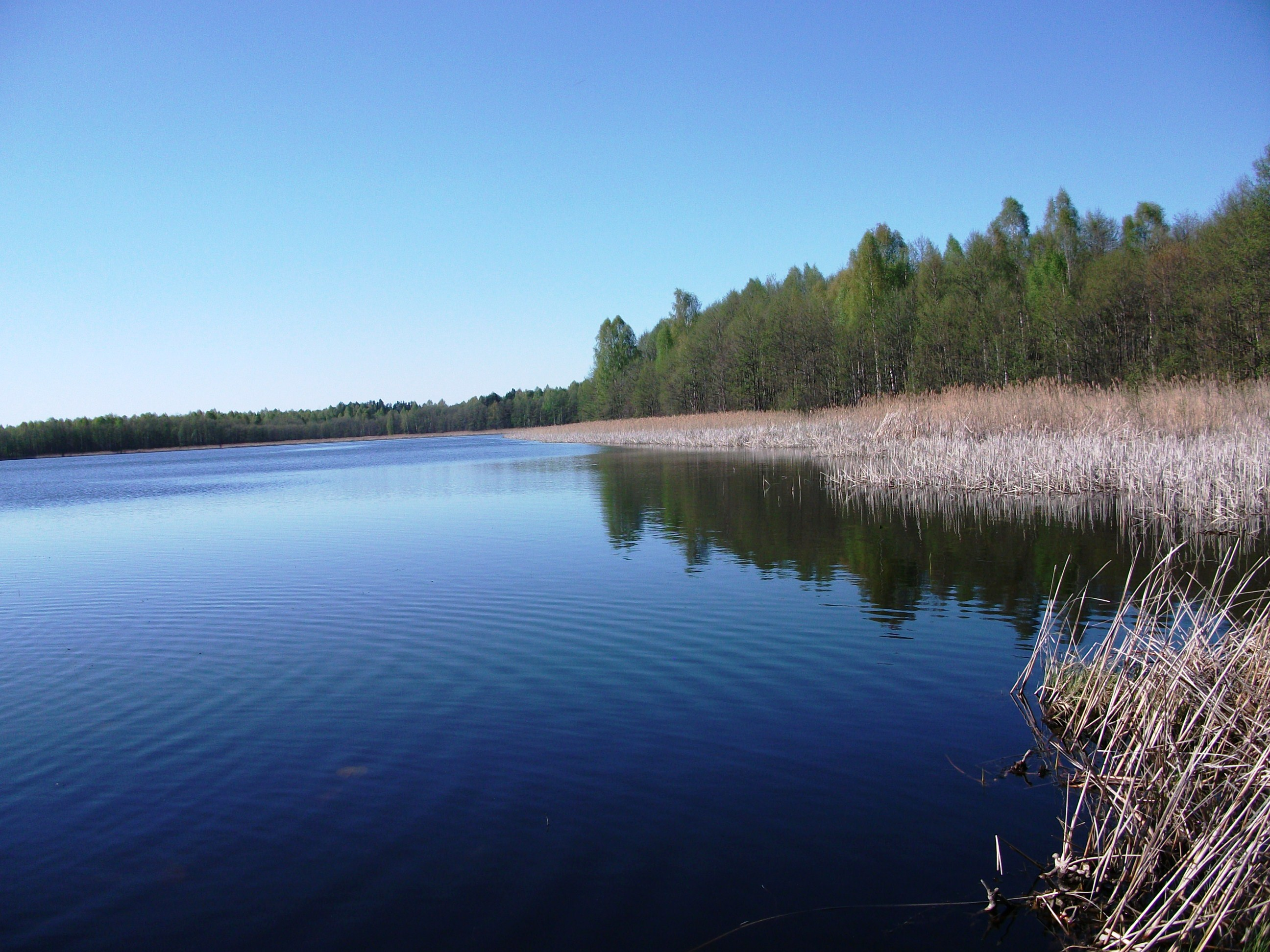 Galadzyanka Lake, Astraviec district, Belarus